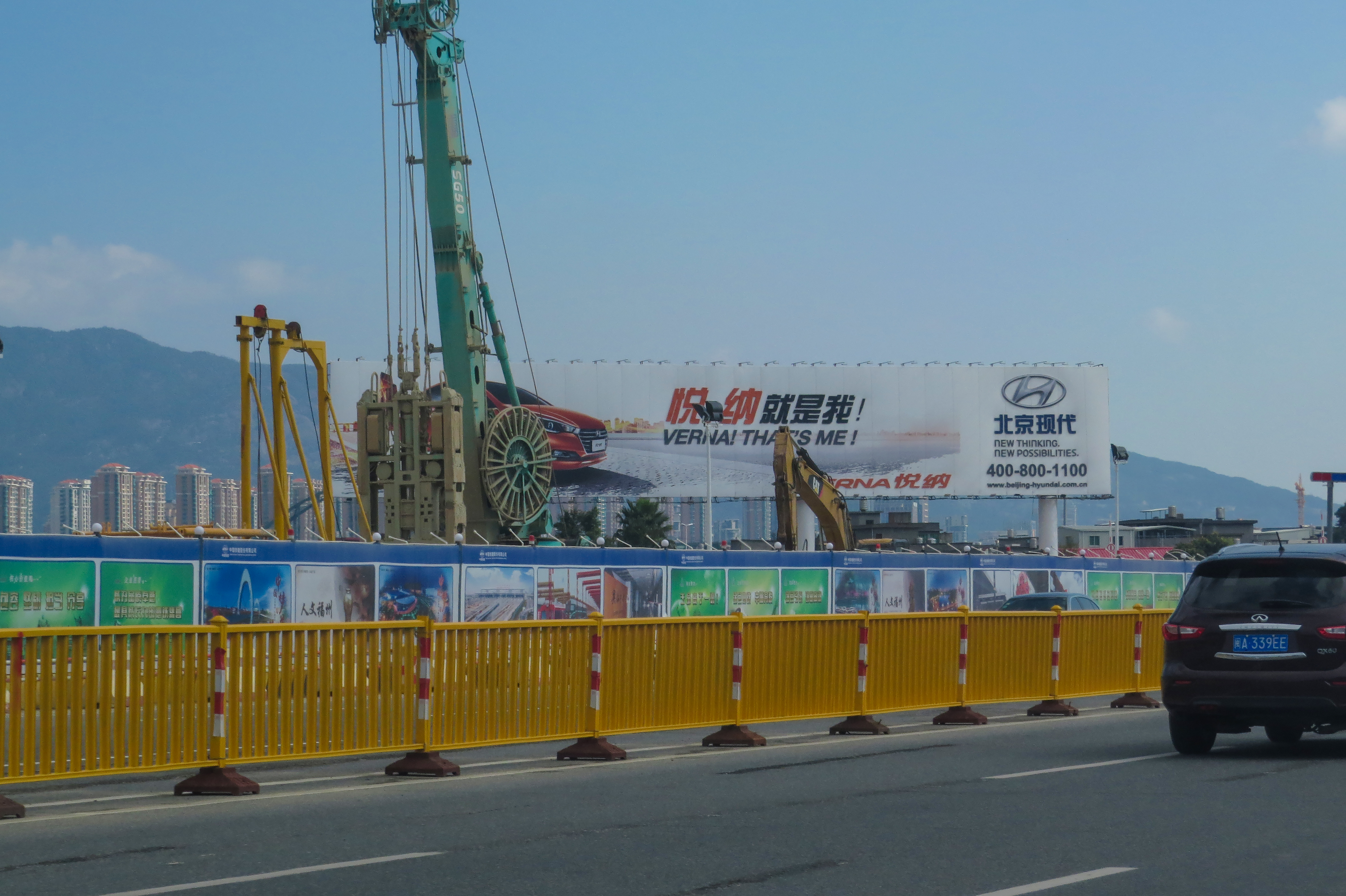 Possibly Linpu Station.